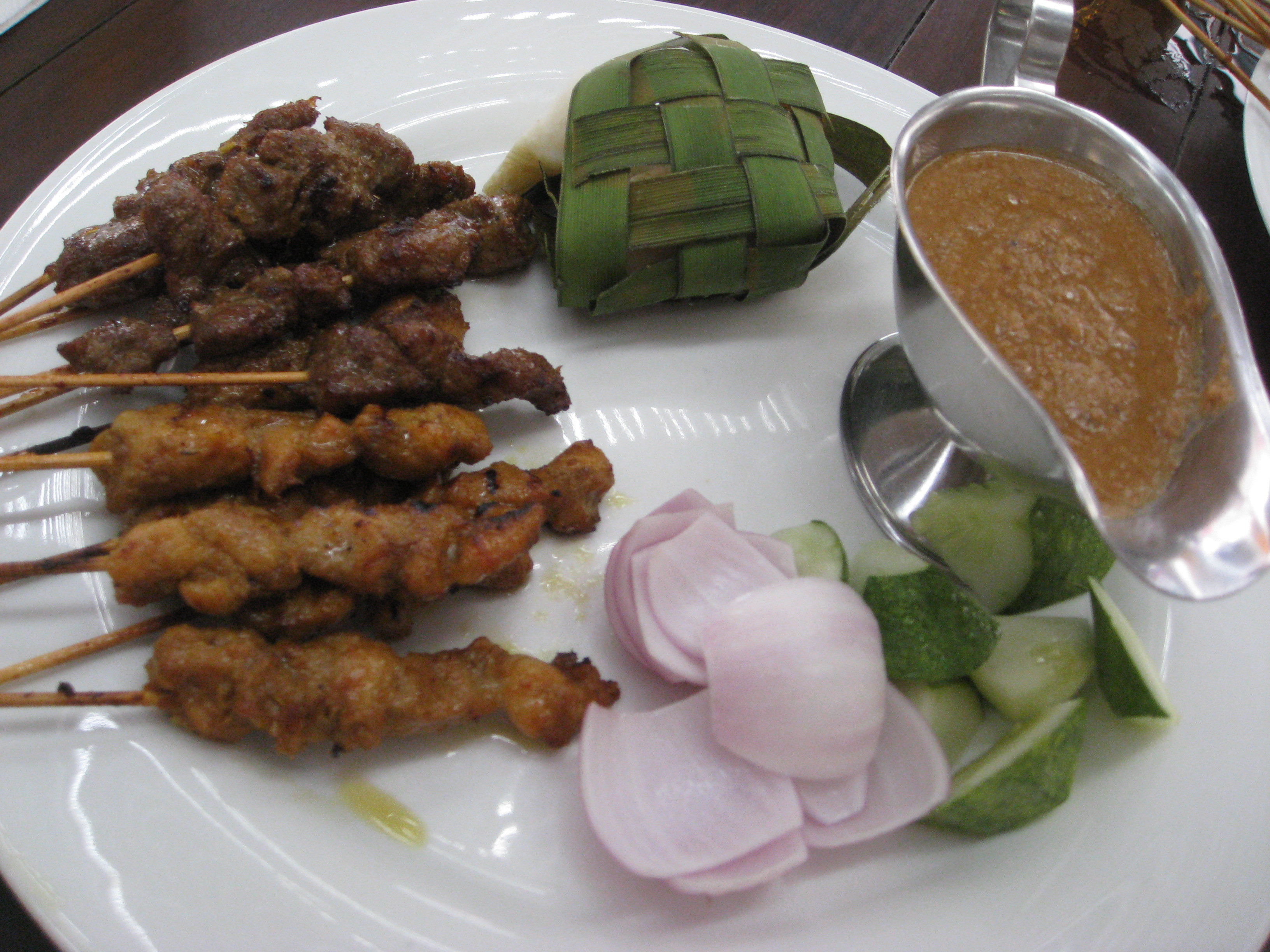 A Portion of Mixed Sate (Chicken and Beef) in Singapore